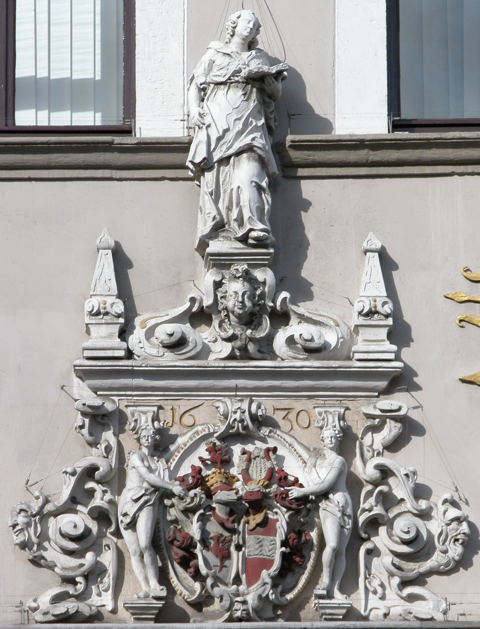 Brunswick, Germany: Achtermann’s House: coat of arms.